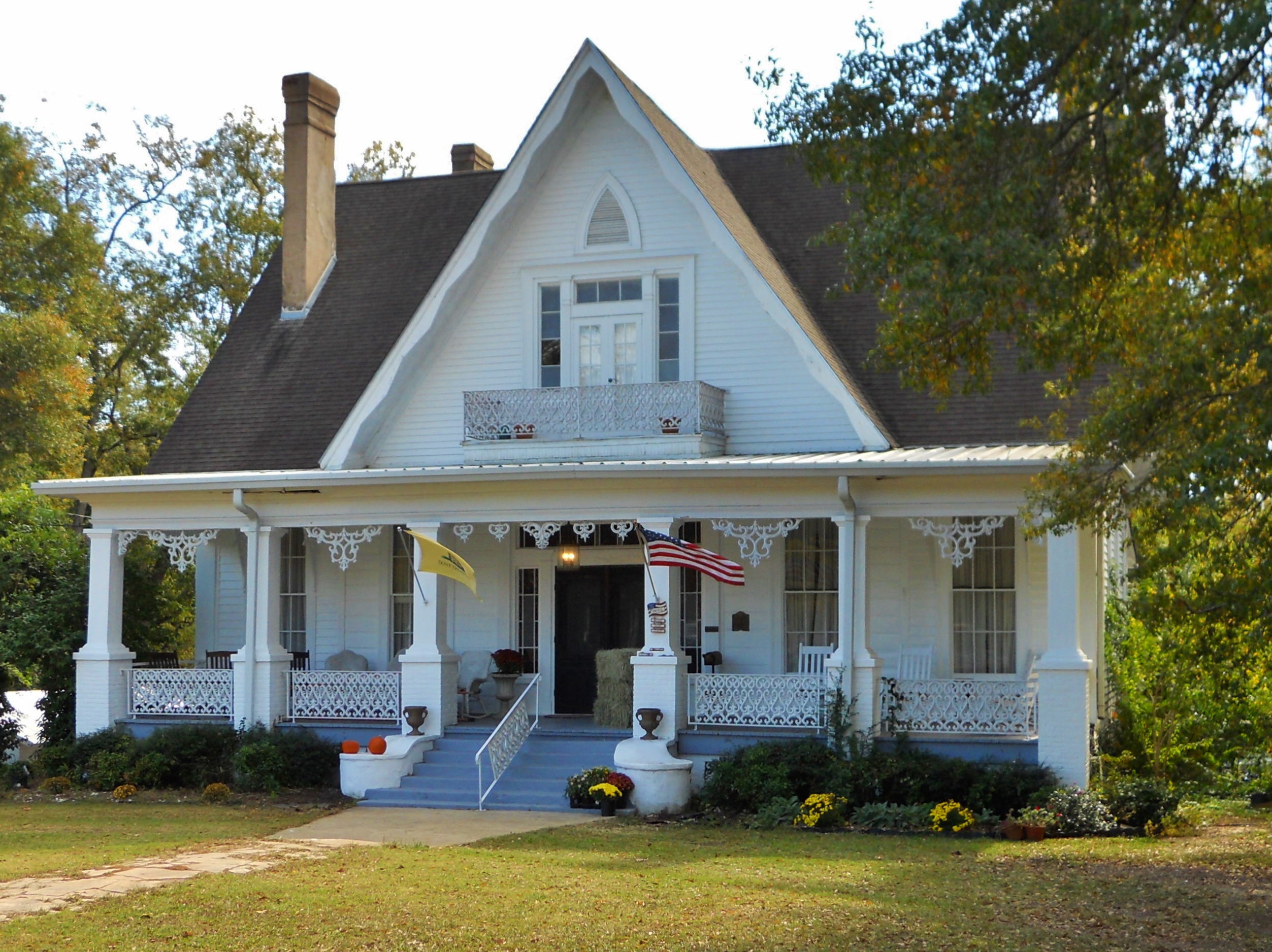 This is a photo of the Miller-Martin Town House in Clayton, Alabama.